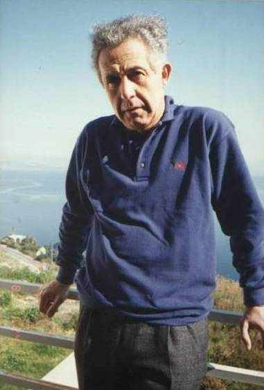 Israel Pincas, an Israeli poet. Pinkas was awarded the Israel Prize for poetry, 2005